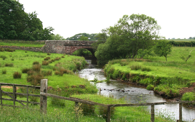 Muncaster Mill Bridge over the River Mite This narrow stone bridge carries the A595 over the River Mite. View on a rainy June morning from Muncaster Mill Halt, adjacent to the former water mill which the river used to power